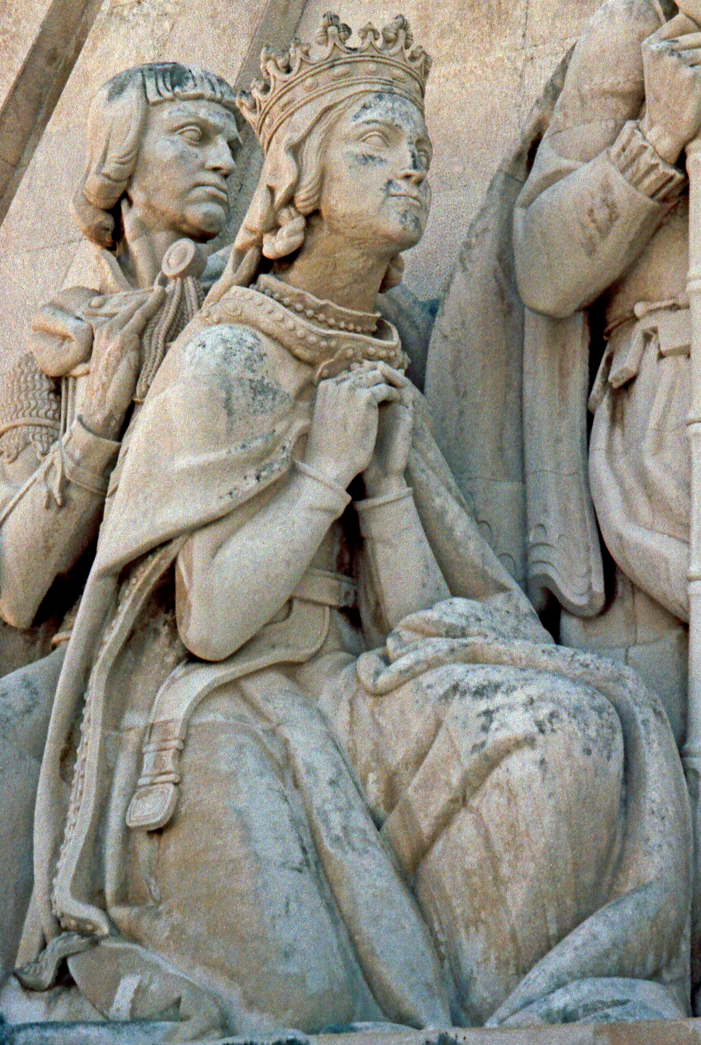 Effigy of Queen Philippa of Lancaster (1360-1415), daughter of the 1st Duke of Lancaster and married to King John I of Portugal, in the Padrão dos Descobrimentos (Monument to the Discoveries), in Lisbon, Portugal.